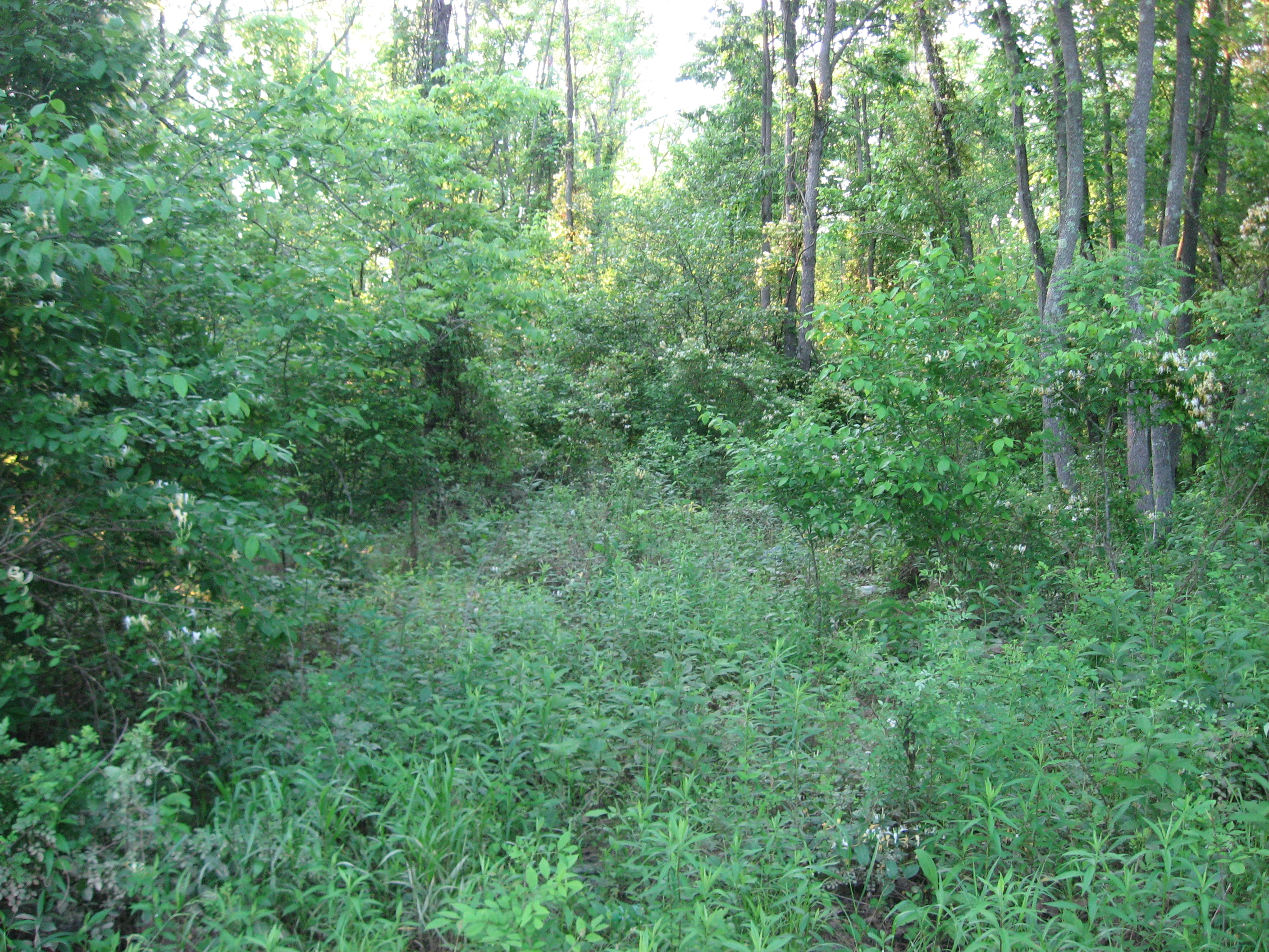 Woods at the Swan's Landing Archeological Site, located on the Ohio River at the end of Lickford Bridge Road north of New Amsterdam in Washington Township, Harrison County, Indiana, United States. Once used by Early Archaic peoples as a factory for stone tools, it is one of the most important Early Archaic archaeological sites in eastern North America. It is listed on the National Register of Historic Places.